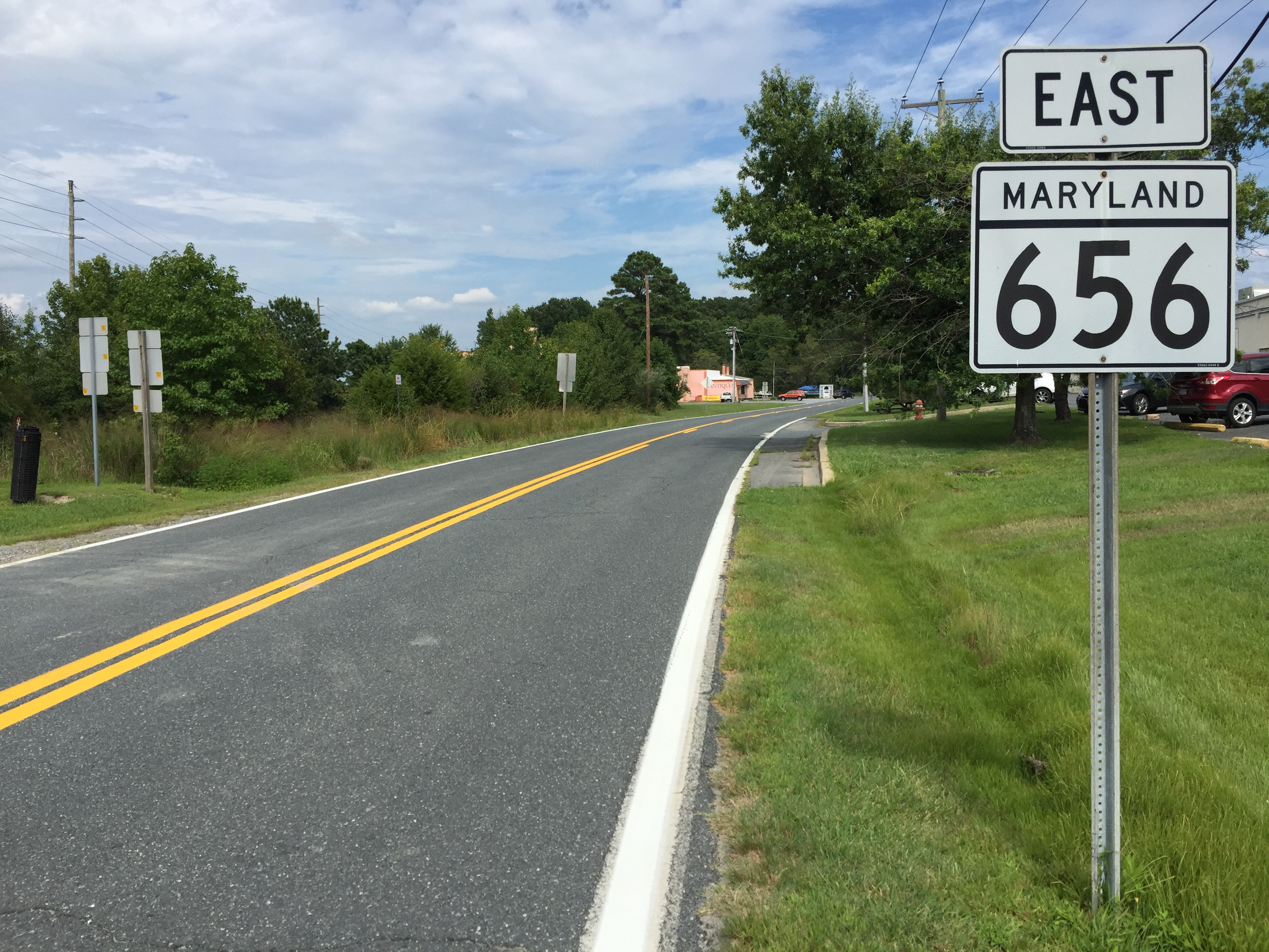 View east along Maryland State Route 656 (Friels Road) at Maryland State Route 18 (Main Street) in Queenstown, Queen Anne's County, Maryland